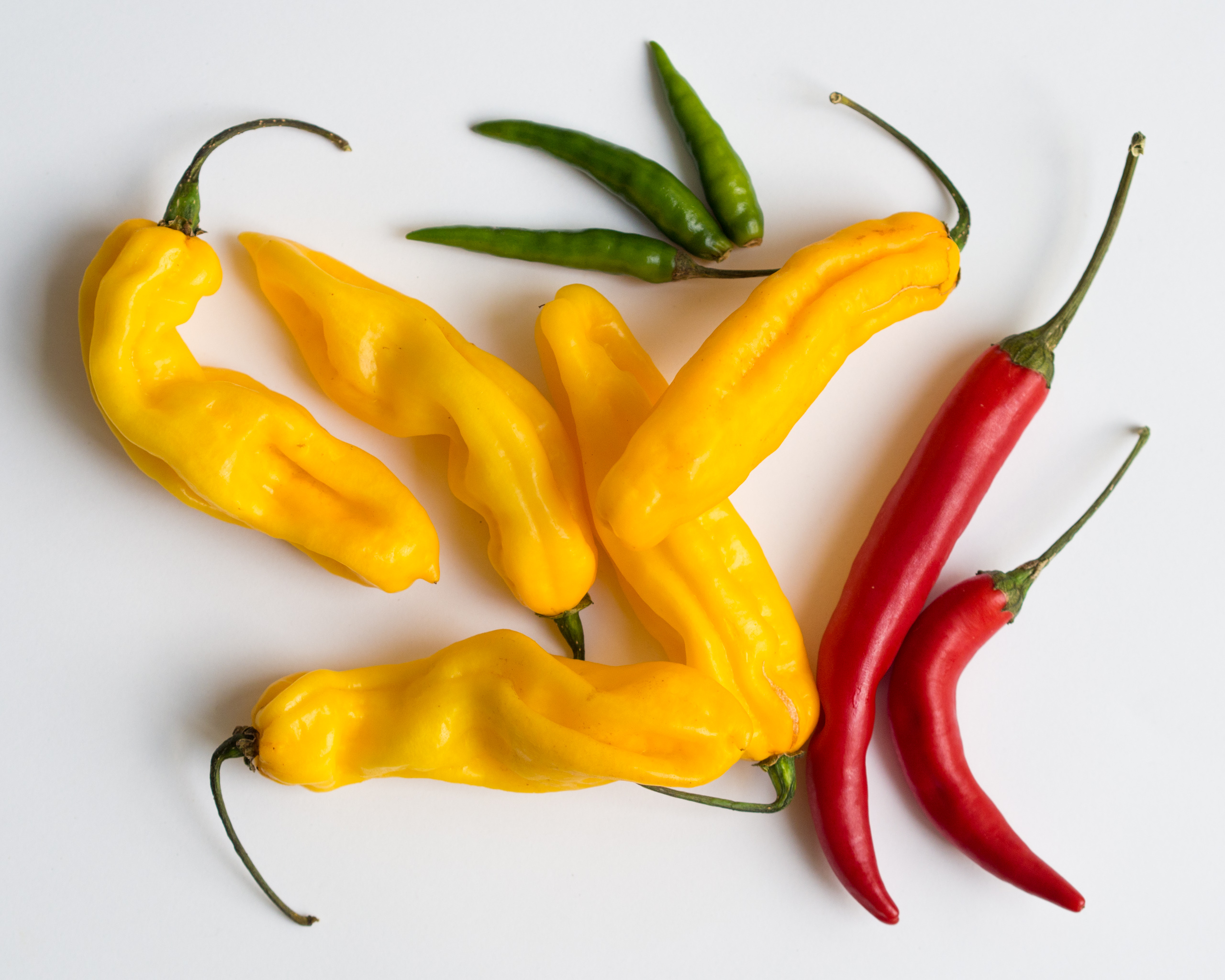 Image showing relative sizes of chillies: green bird's eye, yellow Madame Jeanette, red cayenne. All three chillies were bought at a regular supermarket in the Netherlands.